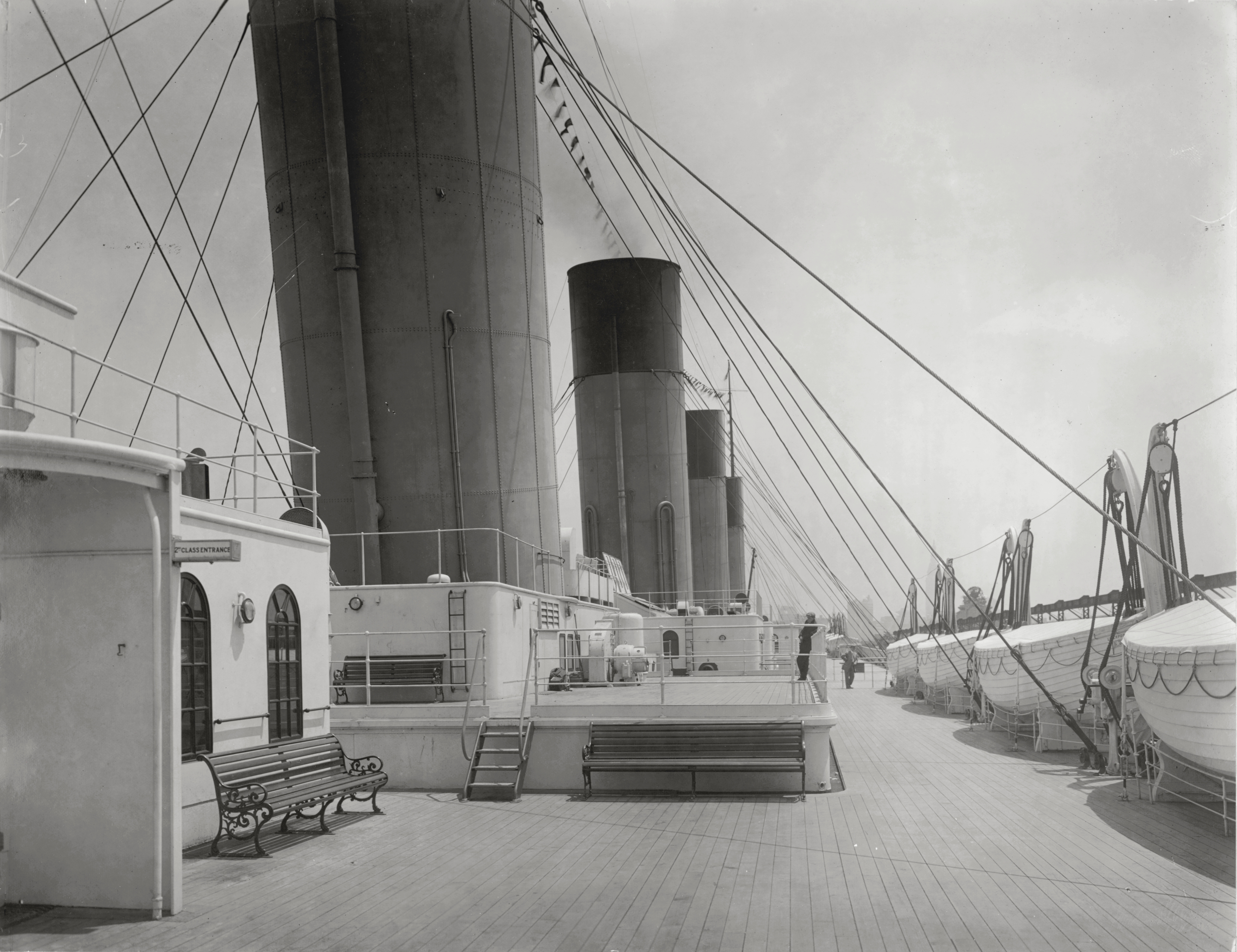 The deck of the RMS Olympic, photographed by William H. Rau in 1911.